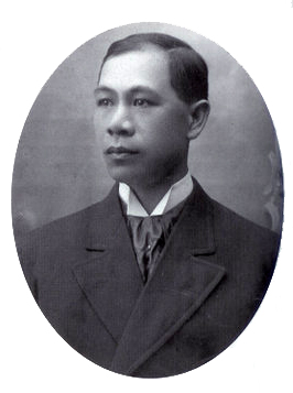 Hong Yen Chang 張康仁 (张康仁) (1860－1926)